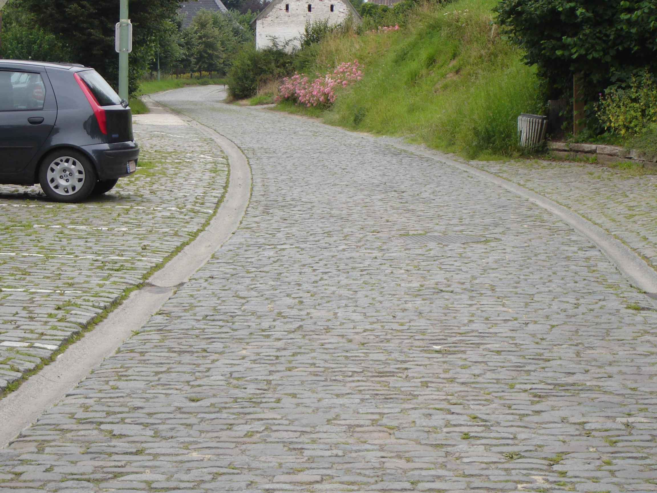 Paddestraat street in Velzeke-Ruddershove. Velzeke-Ruddershove Zottegem, East Flanders, Belgium.